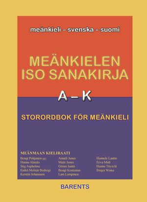 Dictionary in Meänkieli - svenska - suomi